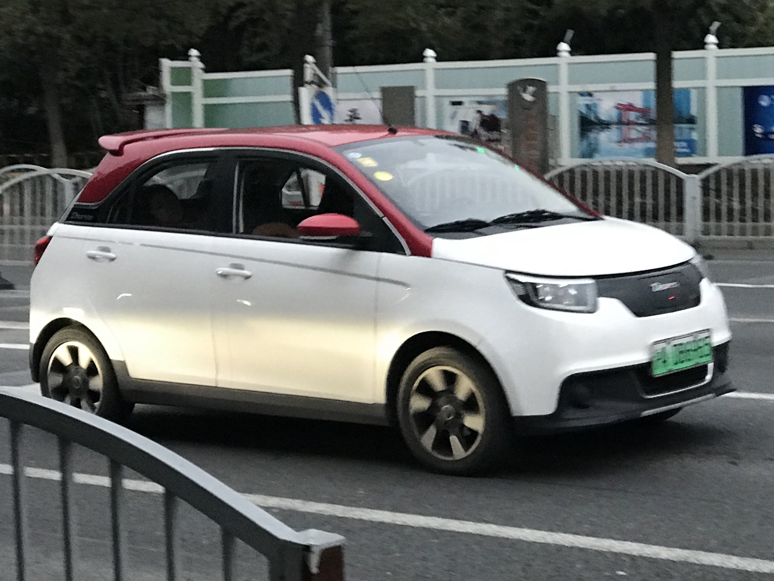 Dearcc EV10 front